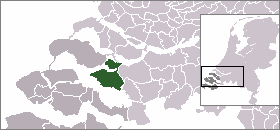 Location map of Dutch municipality. All images of this type by Mtcv have been released in the Public Domain by him